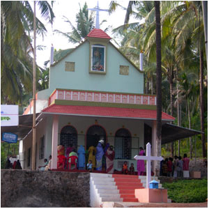 chandanagiri filial church chandanakampara